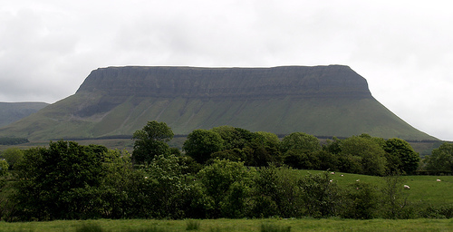 Seen from a distance.